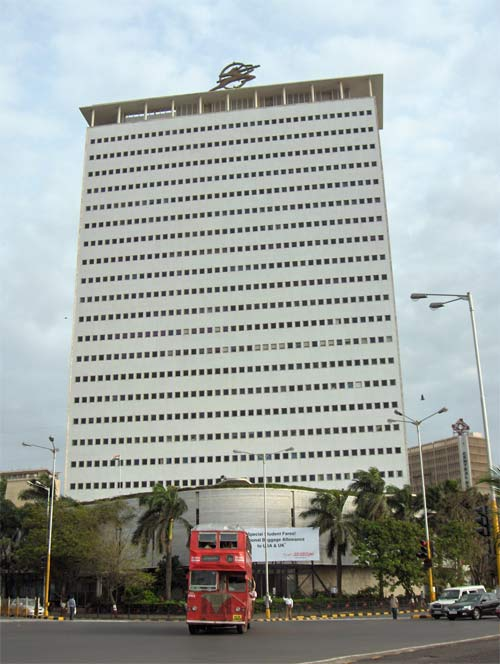 Air India headquarters, Nariman Point, Mumbai